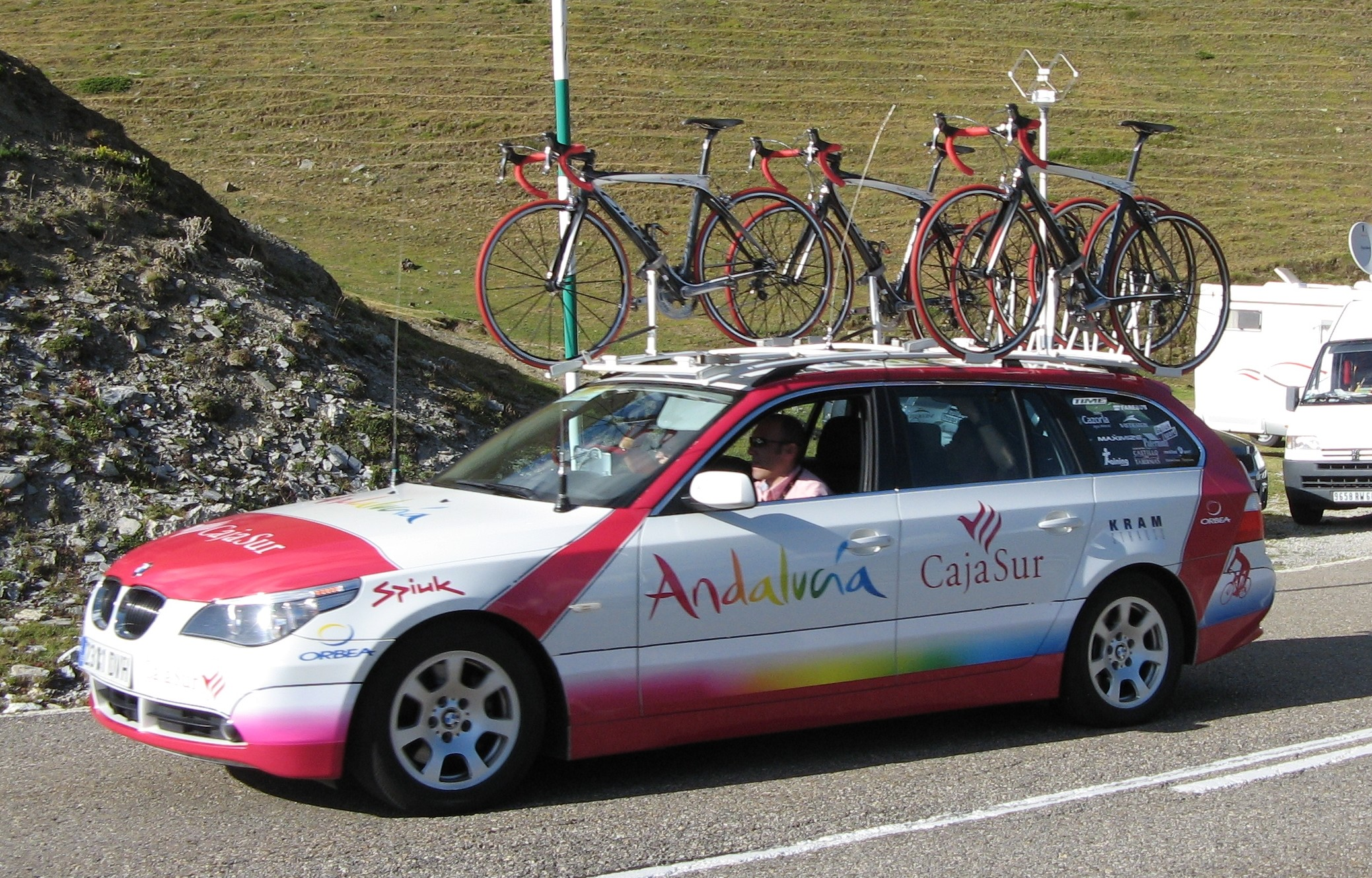 Andalucía Cajasur team car, 2008 Vuelta a España, 8th stage, Port de la Bonaigua, Spain.